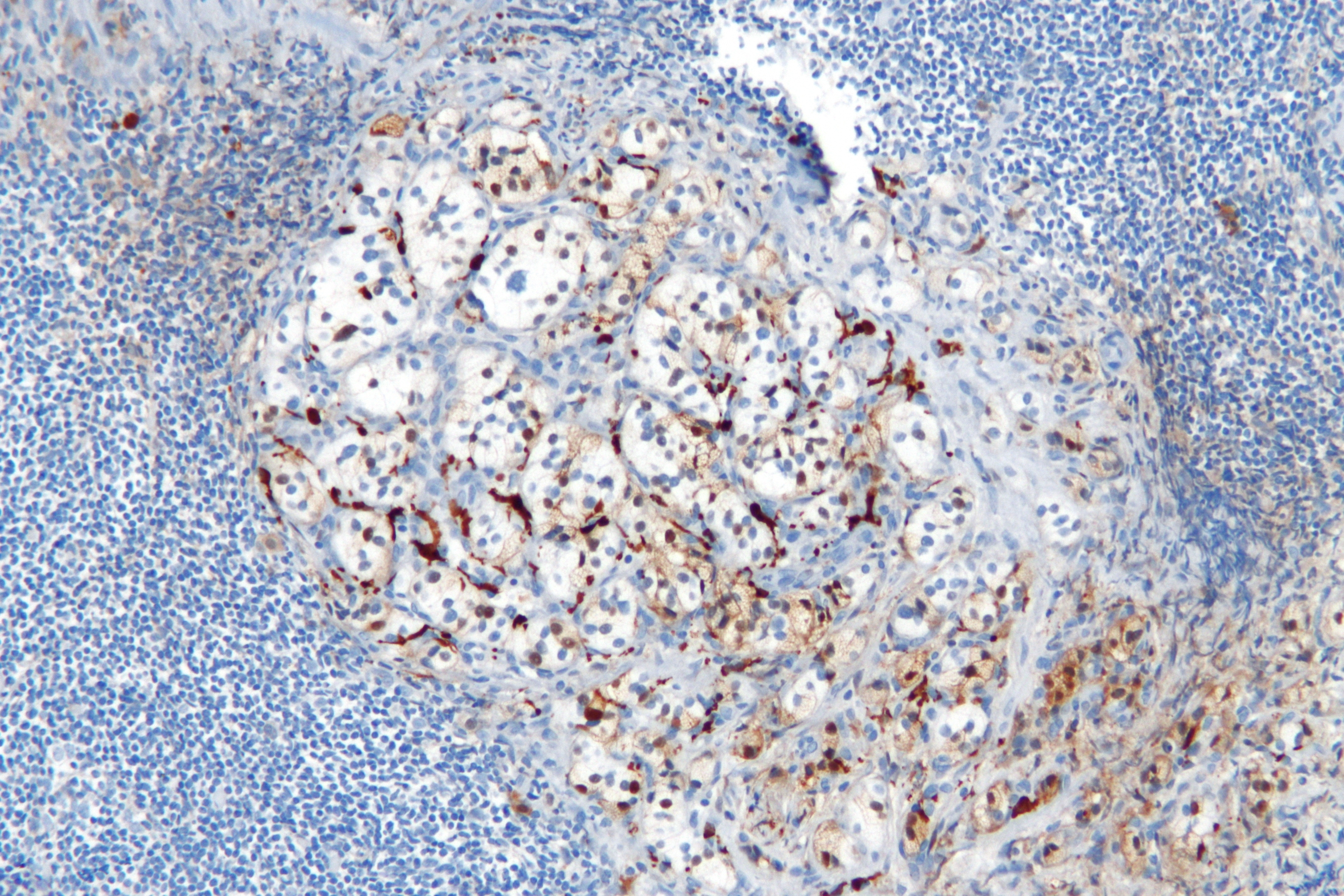 High magnification micrograph of a paraganglioma of the duodenum, also duodenal paraganglioma. S100 immunostain. Paragangliomas may be seen a number of syndromes - including: von Hippel-Lindau disease. Neurofibromatosis type I. Multiple endocrine neoplasia type 2a. Multiple endocrine neoplasia type 2b. Hereditary paragangliomatosis. The histomorphologic differential diagnosis of paraganglioma is: Metastatic renal cell carcinoma. Adrenal cortical rest. Related images Low mag. Intermed. mag. High mag. Very high mag. Intermed. mag. High mag. High mag. Very high mag.